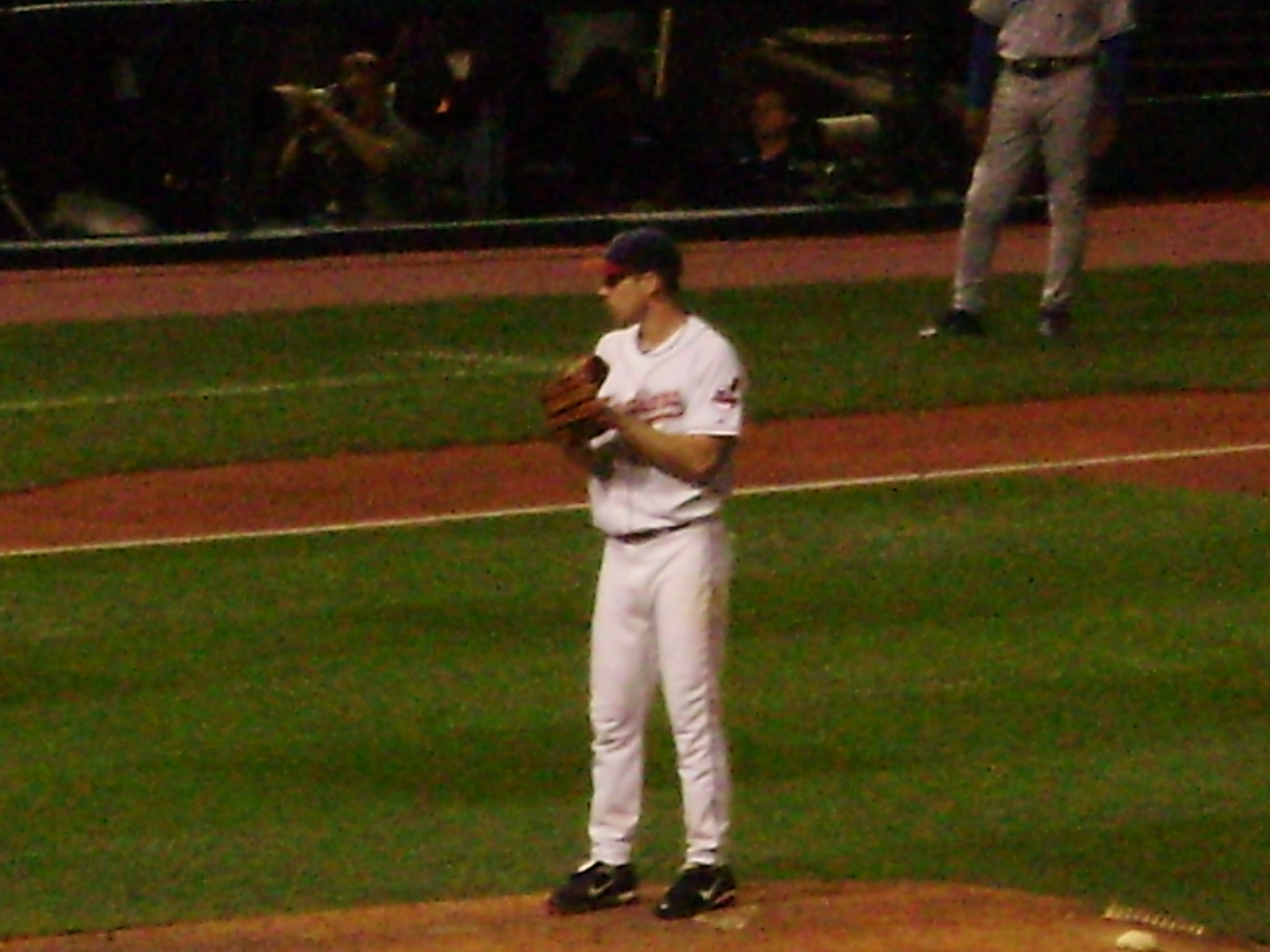 Cleveland Indians pitcher Cliff Lee on the mound at Progressive Field.